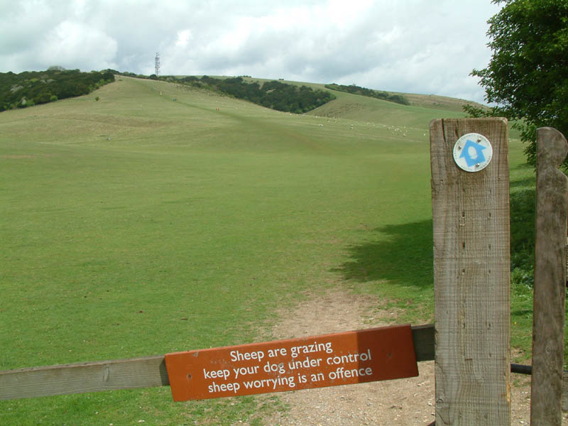 Butser Hill from the base of the public bridleway near the A3 road. Photograph by Stephen Dawson, 3 May 2003.